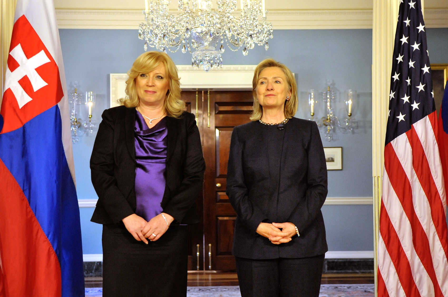 U.S. Secretary of State Hillary Rodham Clinton holds a bilateral meeting with Slovak Prime Minister Iveta Radicova at the U.S. Department of State in Washington, D.C., on November 10, 2010. [State Department photo/ Public Domain]